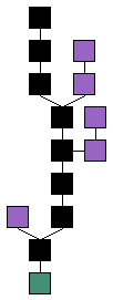 The main chain (black) consists of the longest series of blocks from the genesis block (green) to the current block. Orphan blocks (purple) exist outside of the main chain.